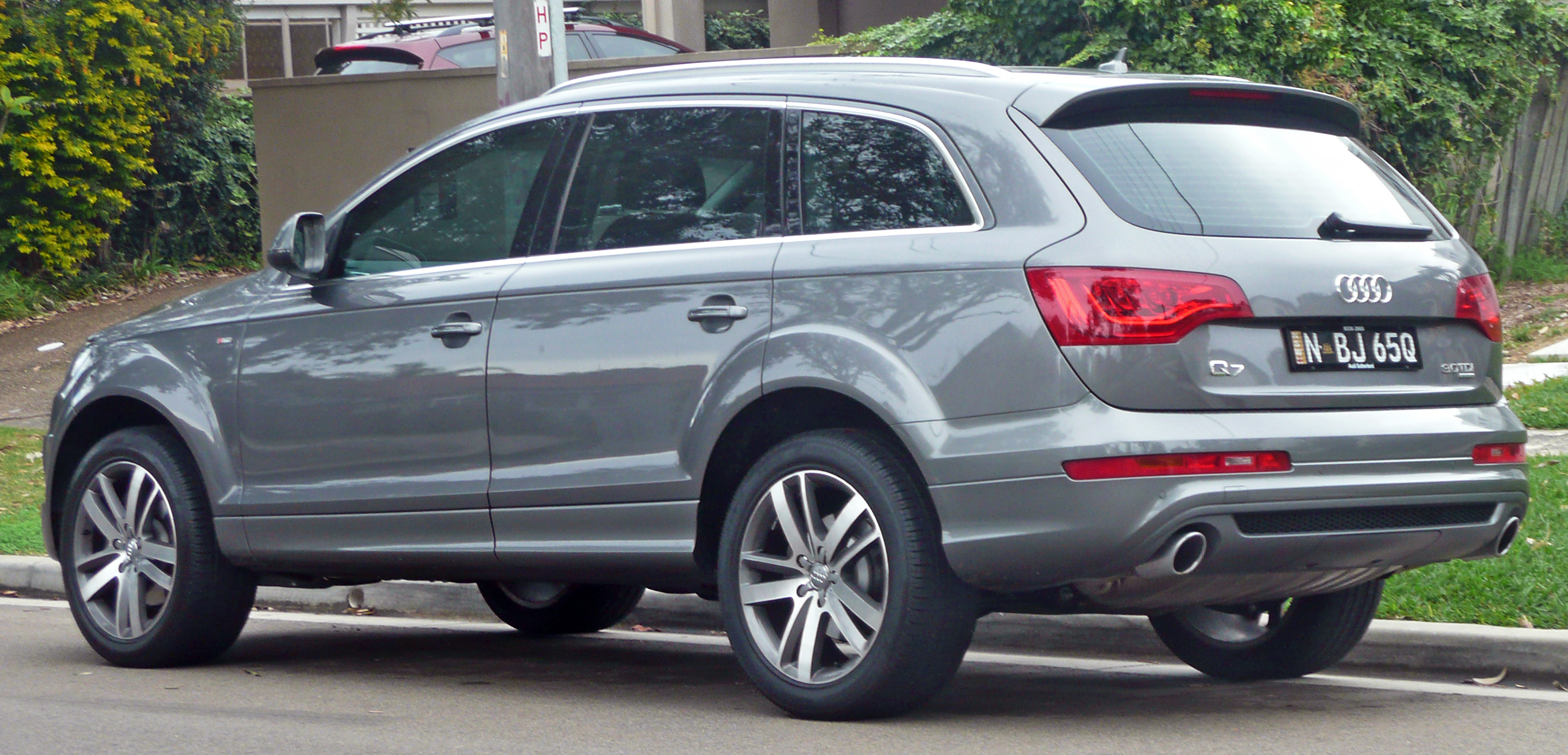 2009–2010 Audi Q7 3.0 TDI quattro. Photographed in Cronulla, New South Wales, Australia.